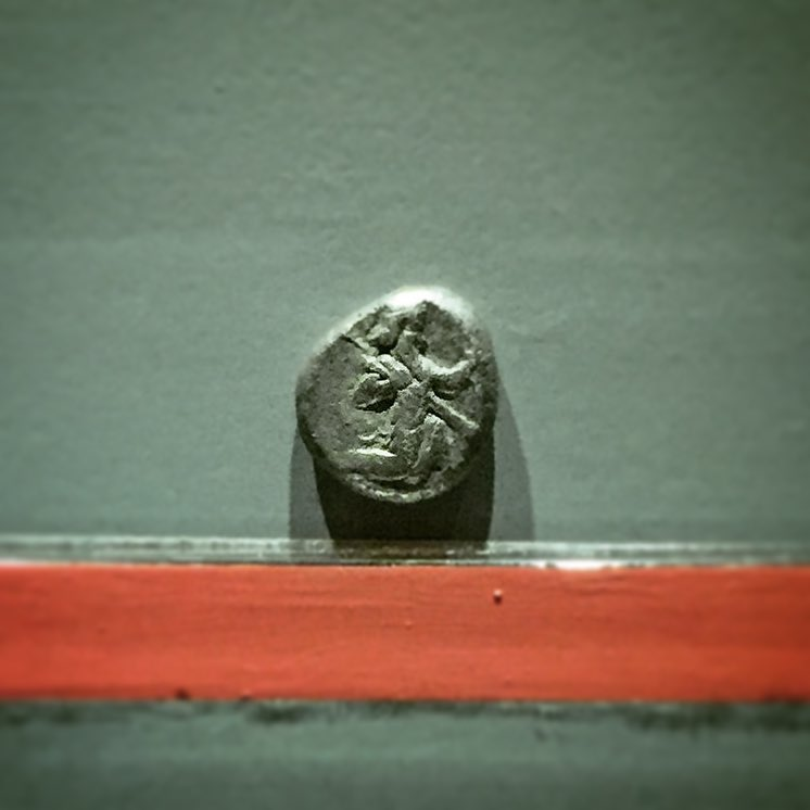 Persian coin - Achaemenid era - at Aydin Archaeology Museum in Turkey. Photo: Aref Mostafazadeh / Persian Dutch Network